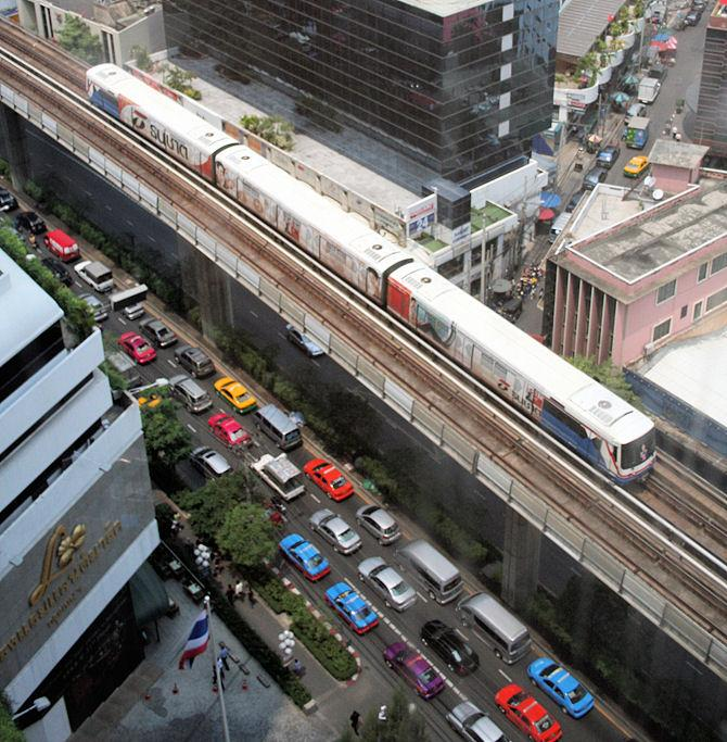 The Bangkok Skytrain (BTS) is a great way of getting around the congested city - flying over the endless traffic jams below! All the onboard announcements are in Thai and English - navigation is easy. This view is taken from the Pacific Place office building, looking down onto Sukhumvit Road. The entrance to the excellent Landmark Hotel can be seen bottom left.